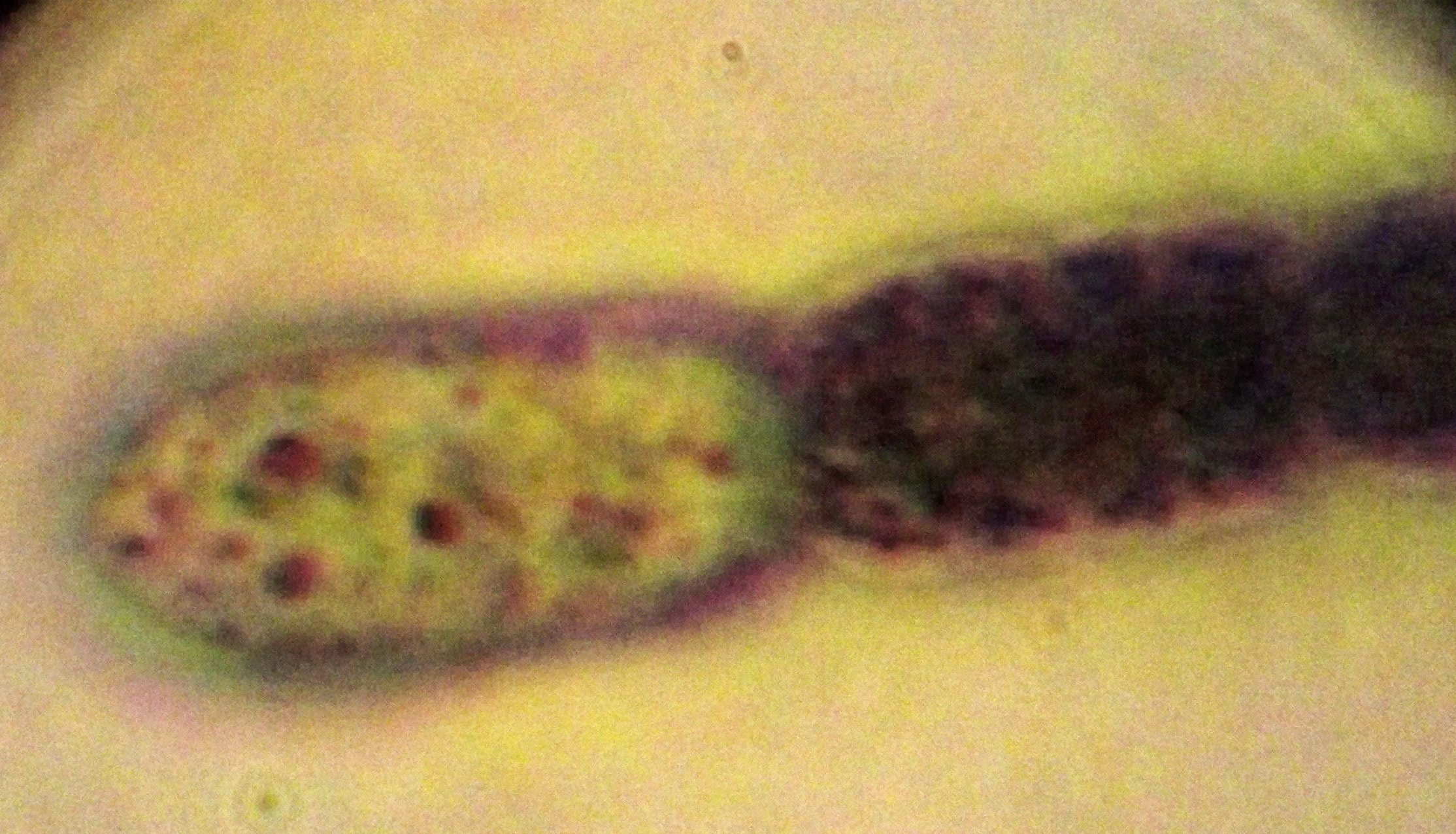 An akinete of unidentified Gloeotrichia